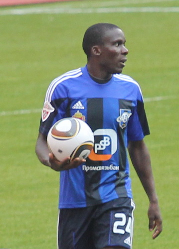 Benoît Angbwa